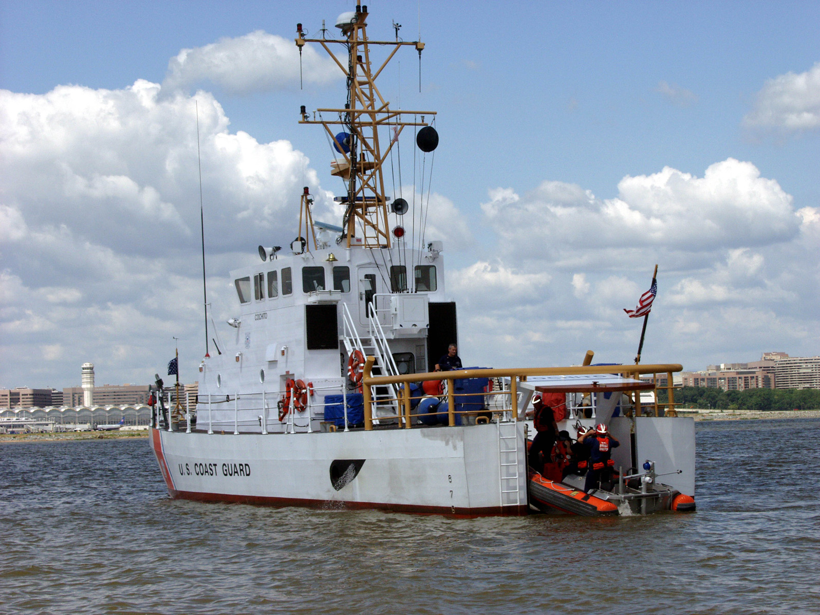 U.S. Coast Guard Cutter Cochito (WPB 87329), homeported in Little Creek, Virginia, launches its small boat, Cochito One, via its stern ramp on August 7, 2004, while patrolling the Potomac River. Washington Reagan National Airport’s Air Traffic Control Tower is seen in the background. Stern ramp launching allows rapid, safe deployments and recoveries of the small boat. It is quicker, safer and more efficient than launching a small boat over the side with a davit. Coast Guard and Coast Guard Auxiliary small boats from Washington, DC, Northern Virginia and Maryland teamed with Cochito and its small boat, during the Marine Safety and Security patrol. Cochito is a 92 ton, 87-foot Coastal Patrol Boat, commissioned on 24 March 2001, and homeported in Little Creek, Virginia. It is one of 54 Coast Guard Marine Protector Class vessels.